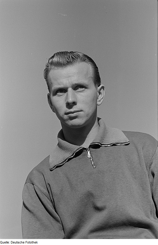 Original image description from the Deutsche FotothekPortrait Paul Tiedemanns